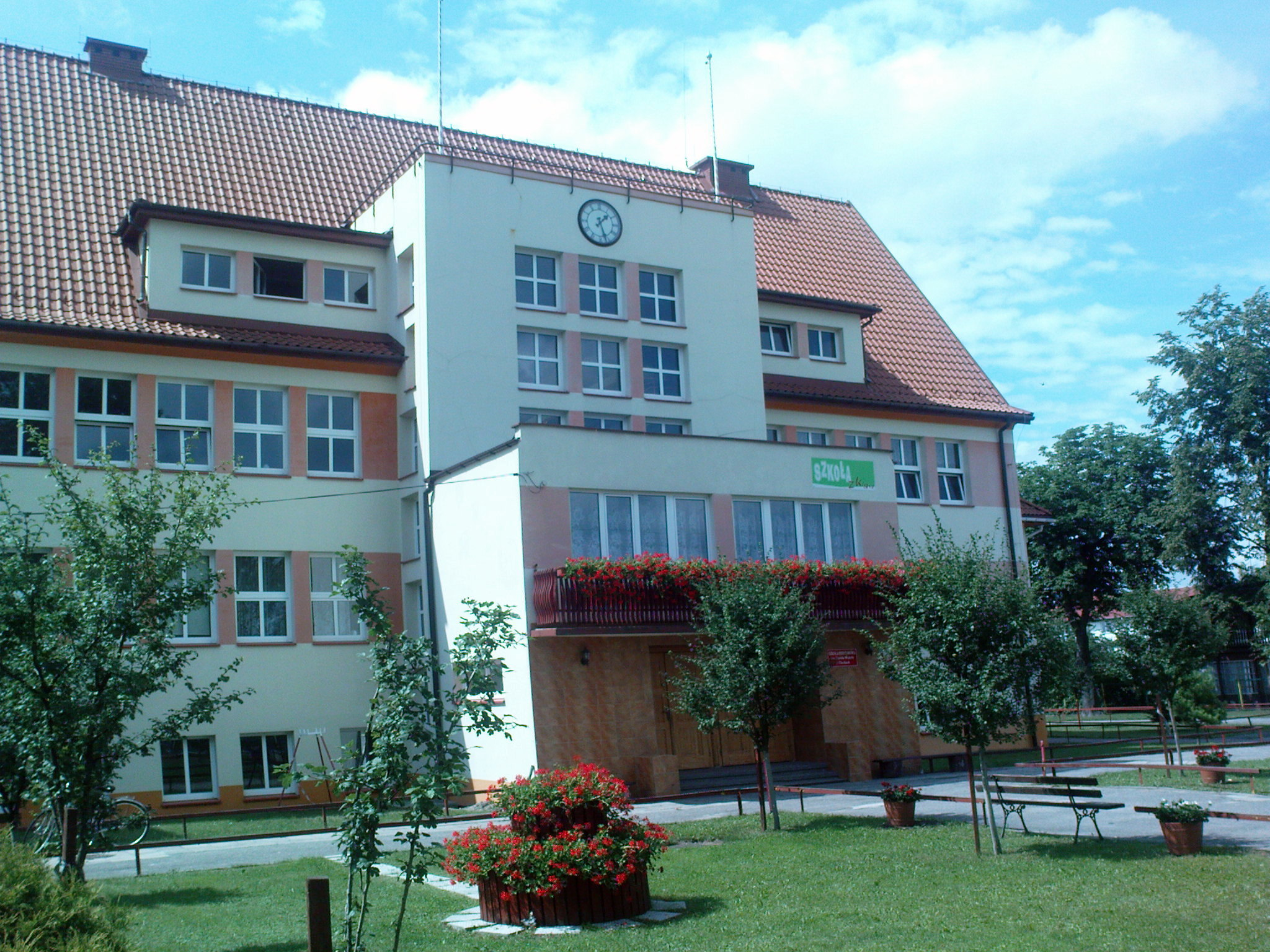 Karol Wojtyła's Basic School in Piecki, Piecki Municipiality, Warmian-Masurian Voivodeship Poland